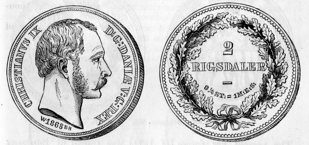 A Danish silver two rigsdaler piece of 1868, with the head of Christian IX. "Weight .927, fineness 877. Value 4s 3/8d." Both sides shown CHRISTIANVS IX D:G: DANIÆ V:G:REX Bare head right. In ex. W 1868 B•H Note the engraving show "B•H", but on the coin there is "R•H", the initials of Rasmus Hinnerup, mint-master of Copenhagen mint 1891-1869 Oak wreath. In field 2 // RIGSDALER in two lines. Below 9 ¼ ST: = 1 M.E.S. (i.e. 9 ¼ pieces = 1 Cologne mark) KM 772